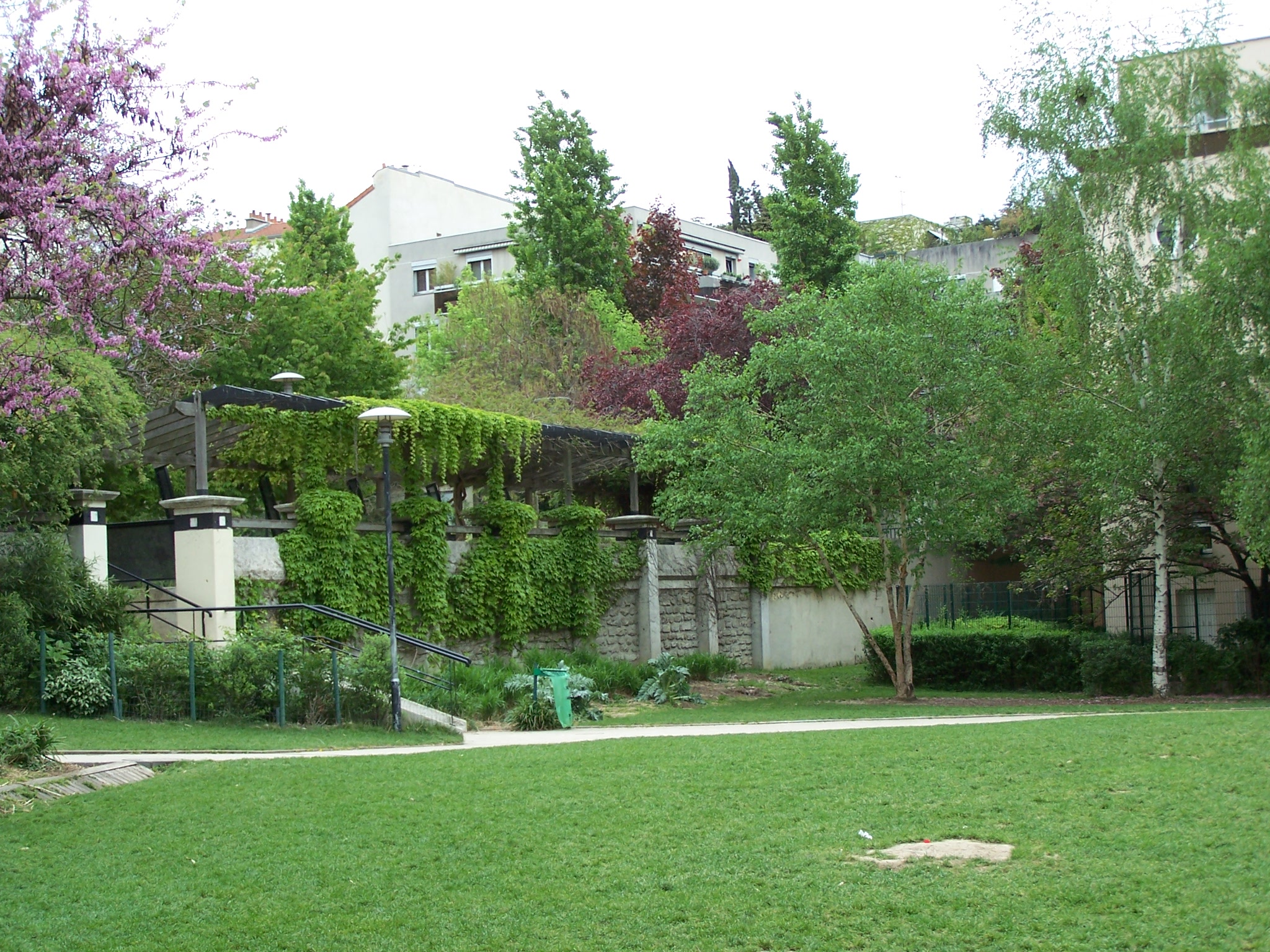 View of the park